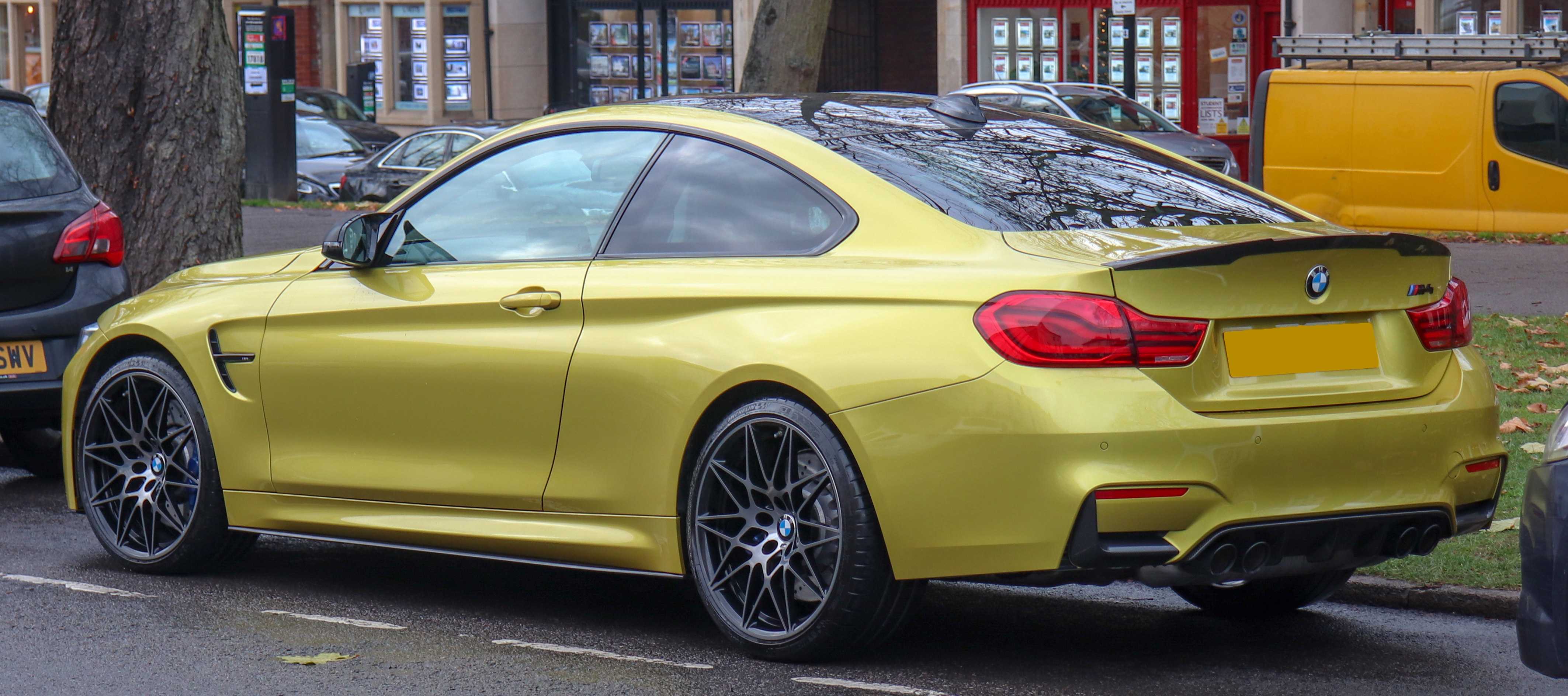 2017 BMW M4 Competition Package 3.0 Rear Taken in Leamington Spa